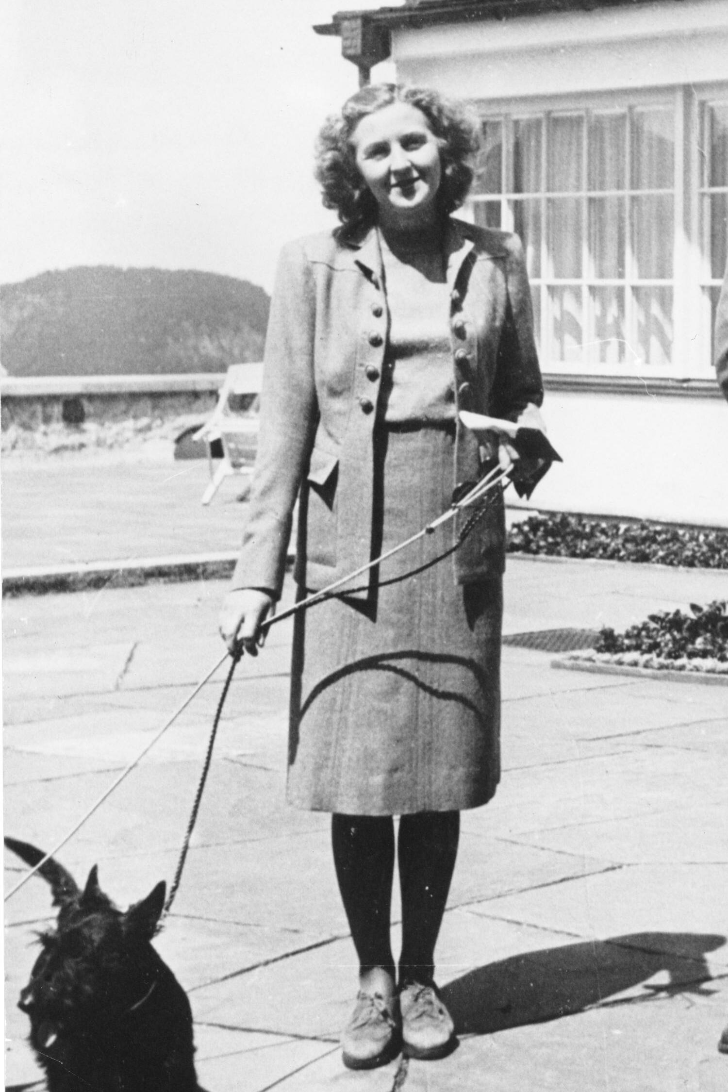 Eva Braun with dog at the Berghof